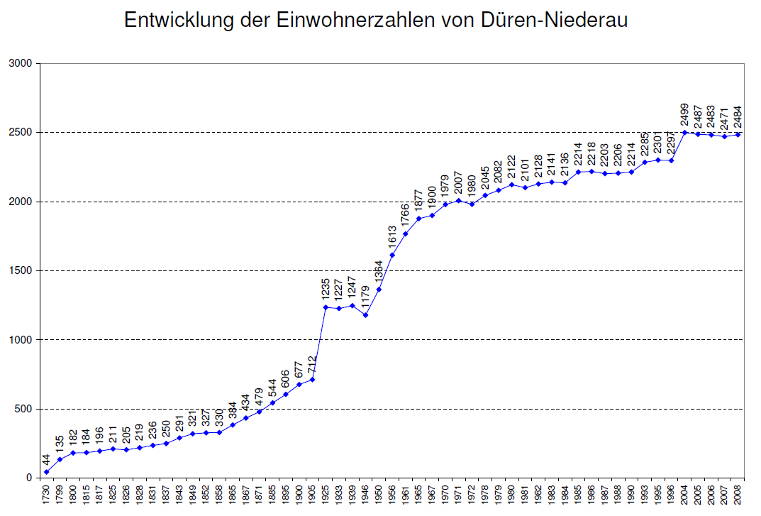 statistical development of the population of Düren-Niederau, Germany